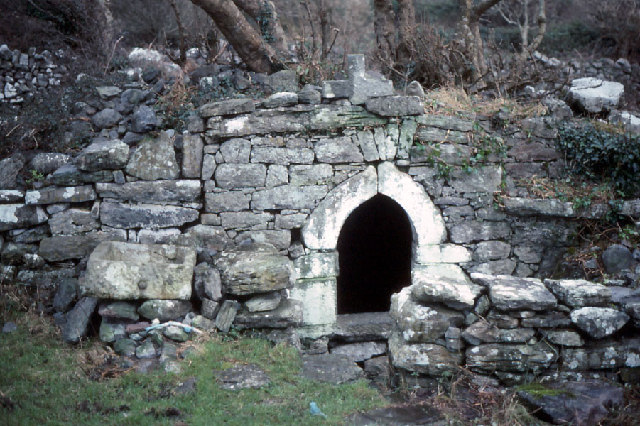 Tobar na Croiche Naoimhe: a well near Gleninagh Castle in The Burren. This picture duplicates one taken by the famous Ulster photographer R. Welch in the early 20th century. Almost nothing has changed.